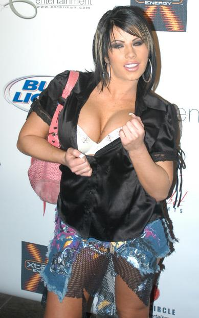 March 10, 2007: Ron Jeremy's Birthday Party A Mob Scene In Hollywood Saturday Night